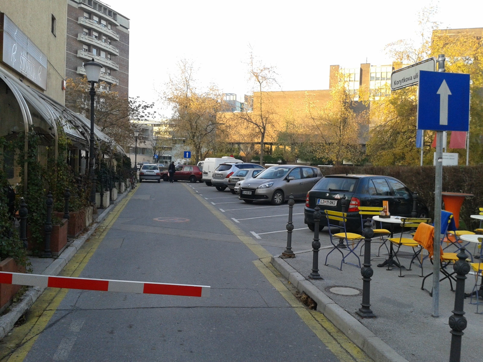 Korytko Street, Ljubljana (Center District). In the front, Štorklja sidewalk café; in the background, Medical Faculty of Ljubljana (right) and University Medical Centre Ljubljana (left).